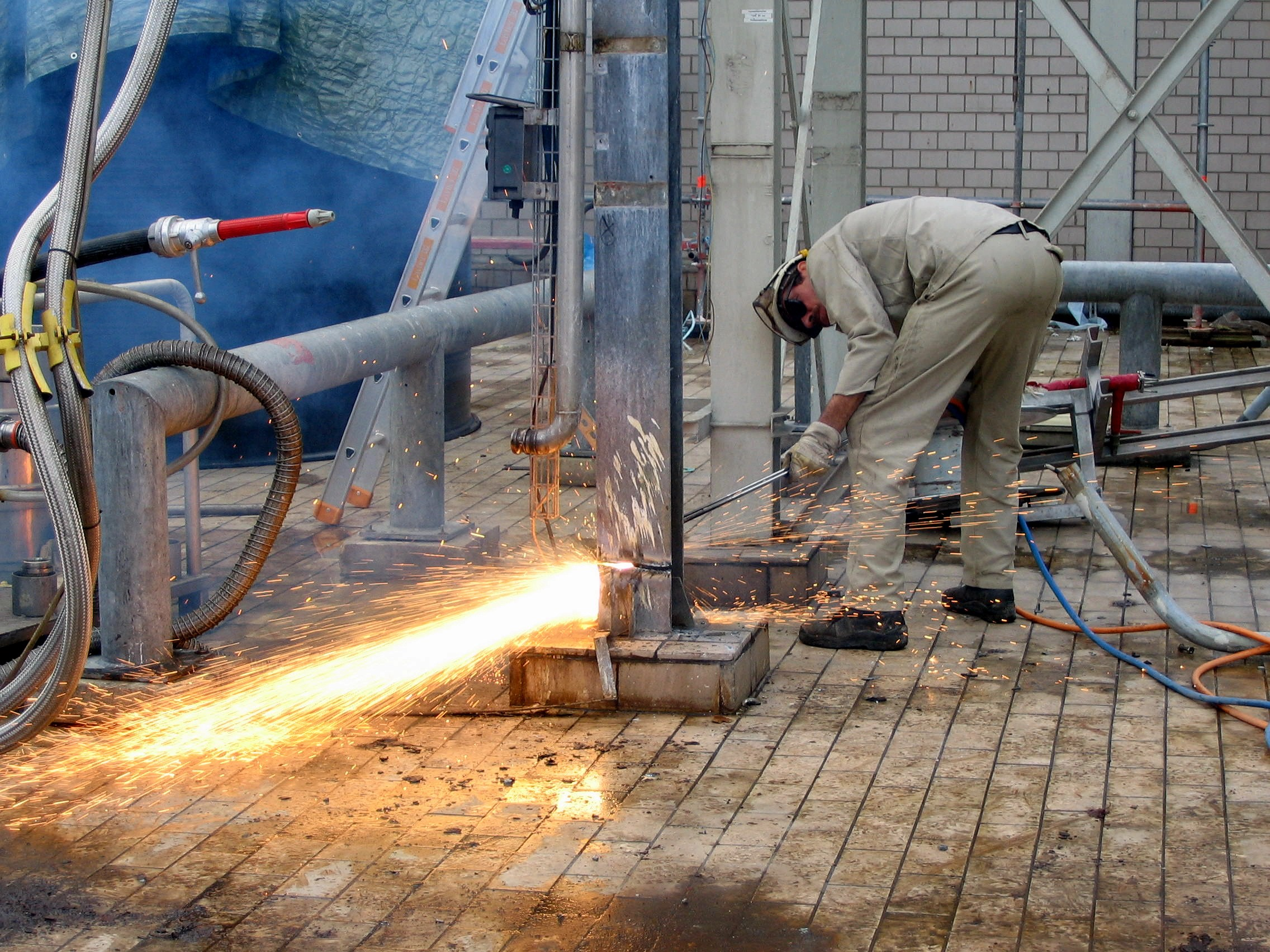 A flame-cutter cuts through a steel T-beam during the demolition of an industrial plant